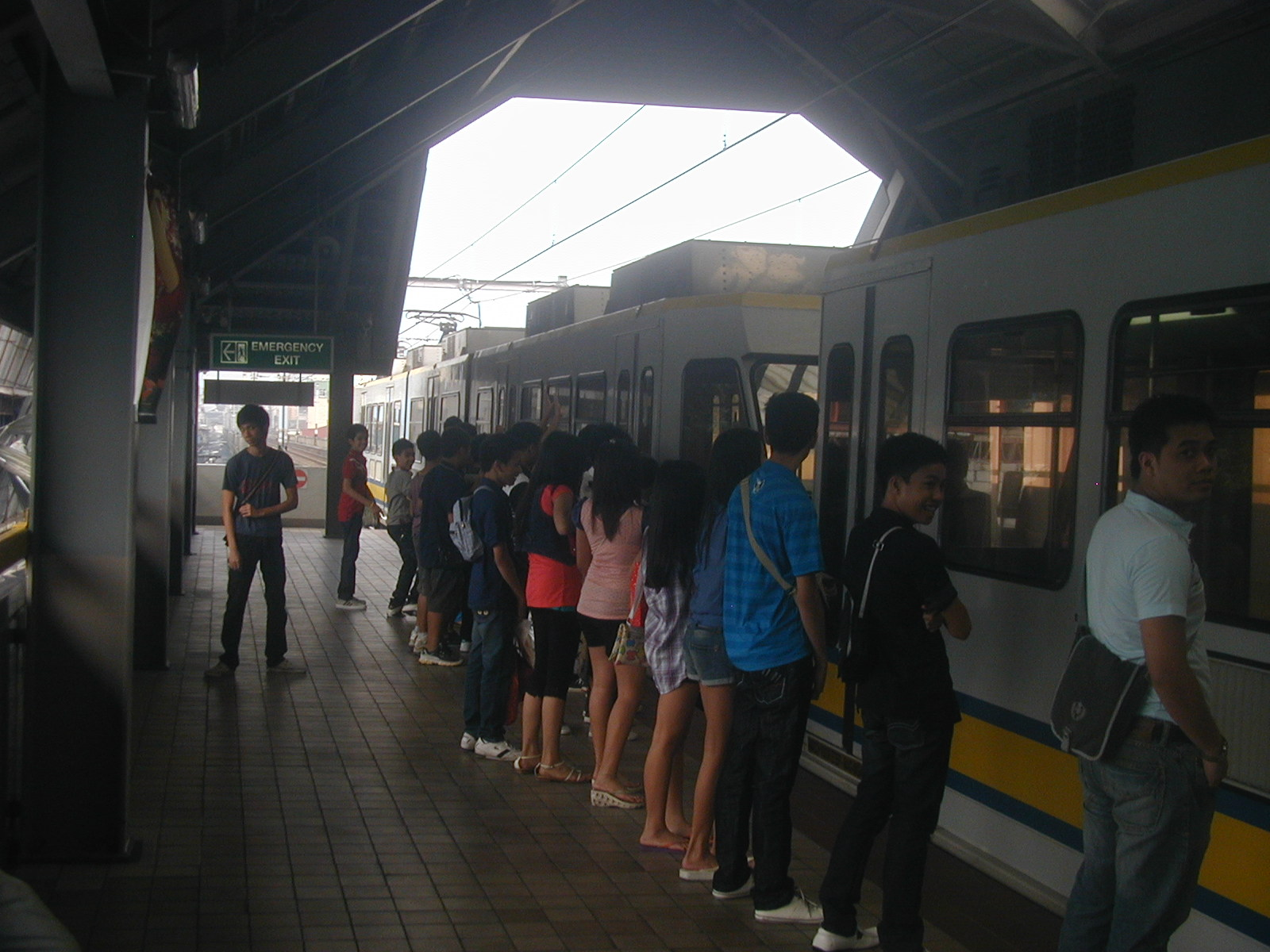 Platform ara of LRT Tayuman Station